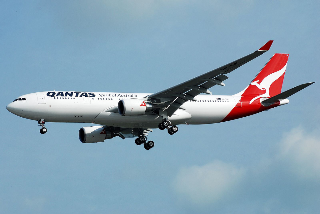 On her delivery flight from Toulouse to Melbourne via Singapore operating as flight QF2008.